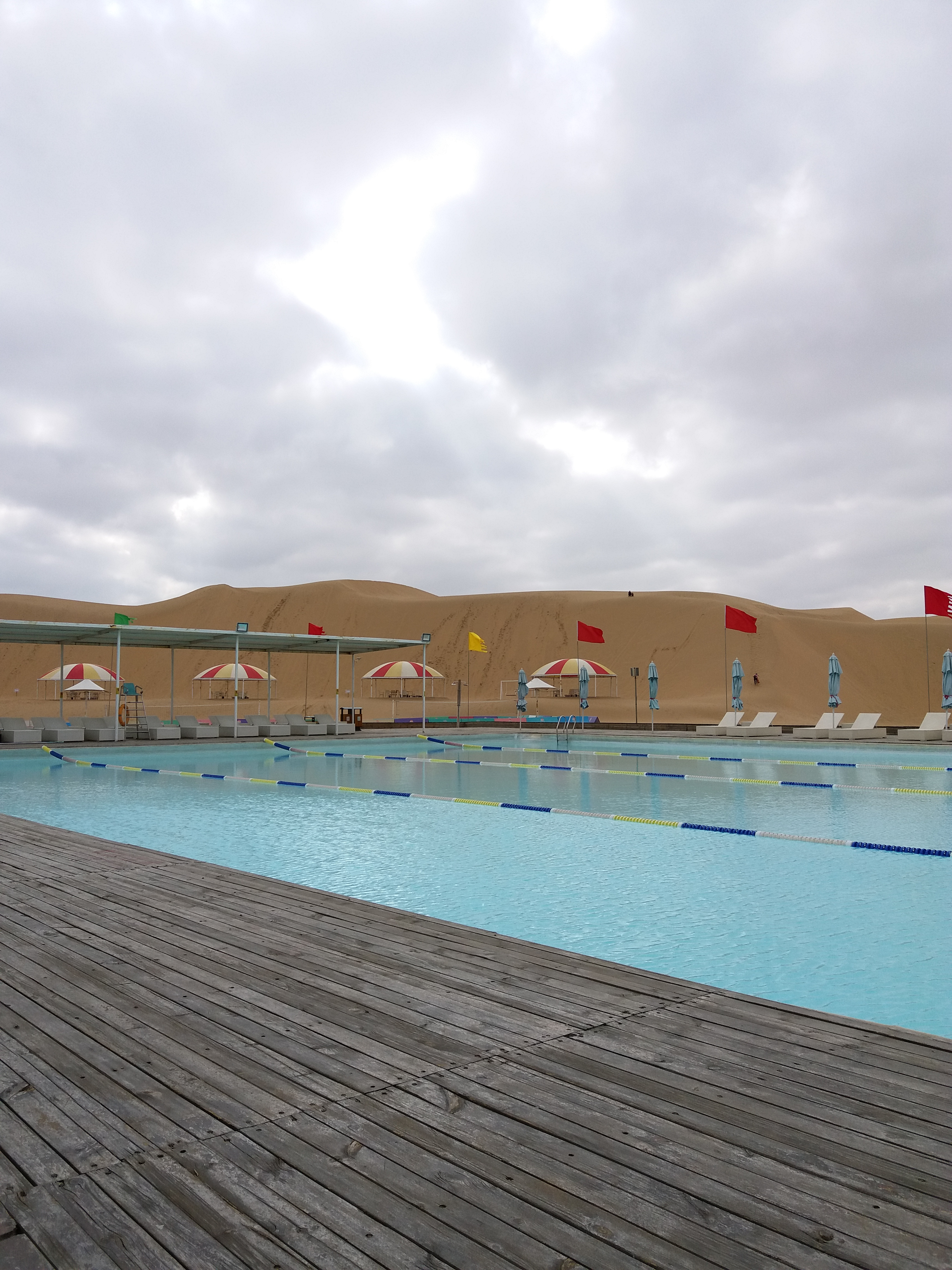 Swimming pool in the desert of Xiangshawan, Dalad Banner, Ordos, Inner Mongolia, China